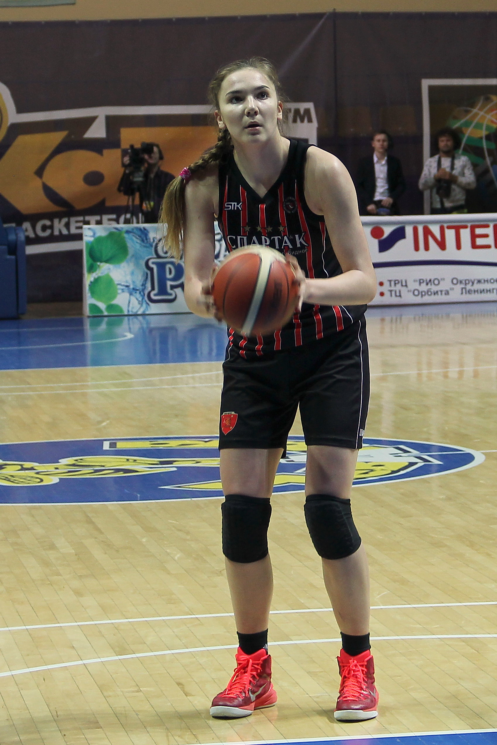 Russia, Vologda, Maria Vadeeva in game «Vologda-Chevakata» vs «WBC Spartak Moscow Region»